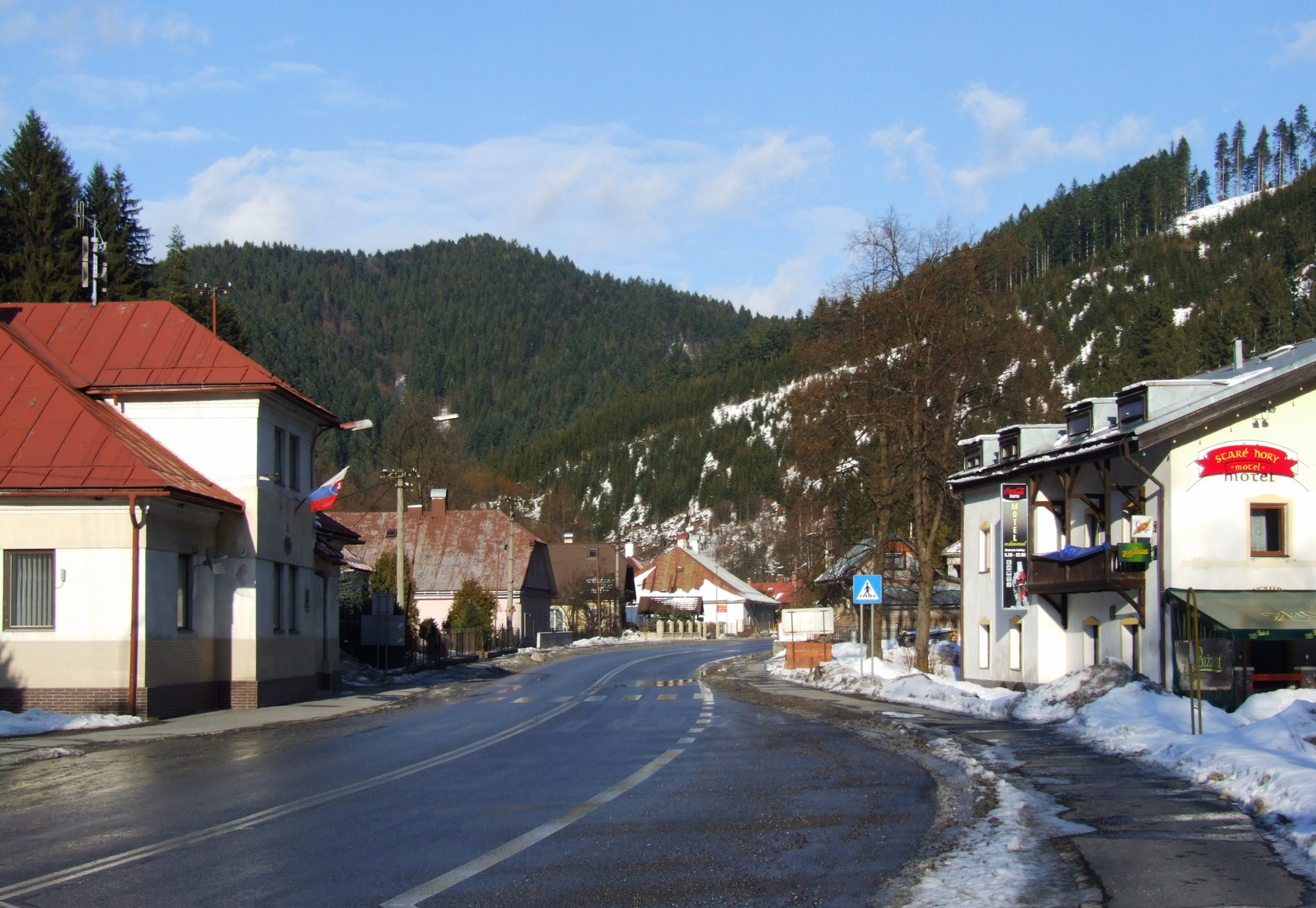 Staré Hory, Slovakia. Road from Banská Bystrica to Donovaly